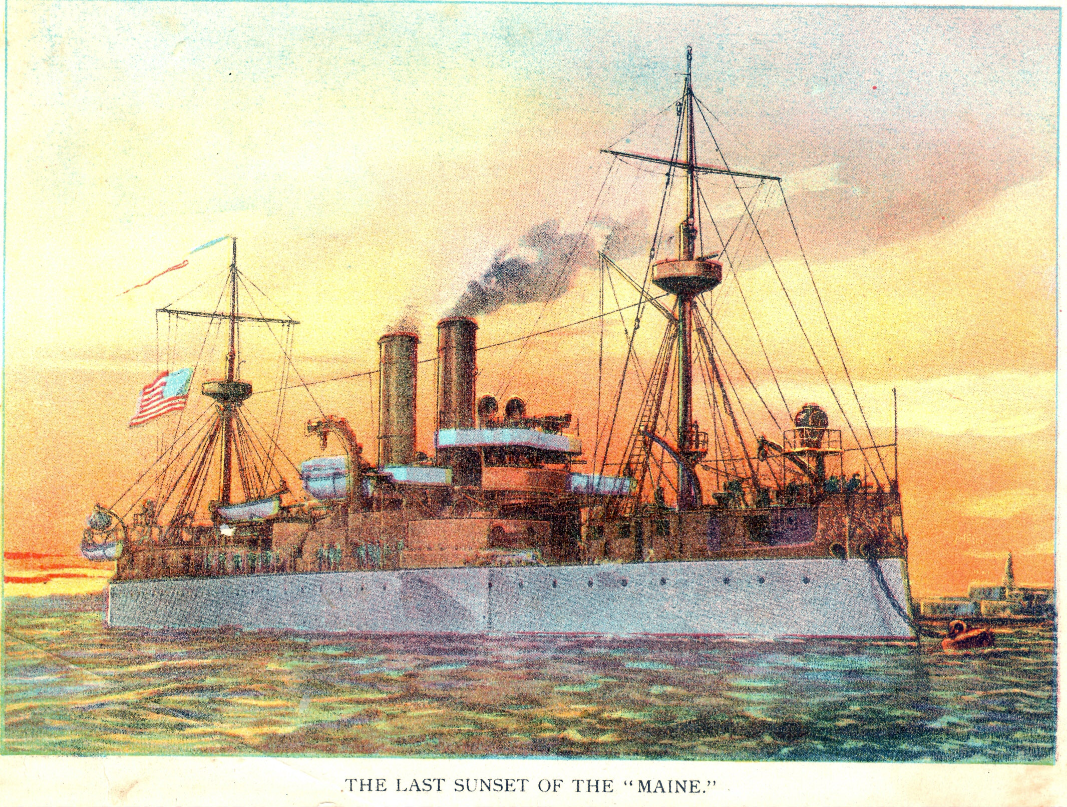 USS Maine